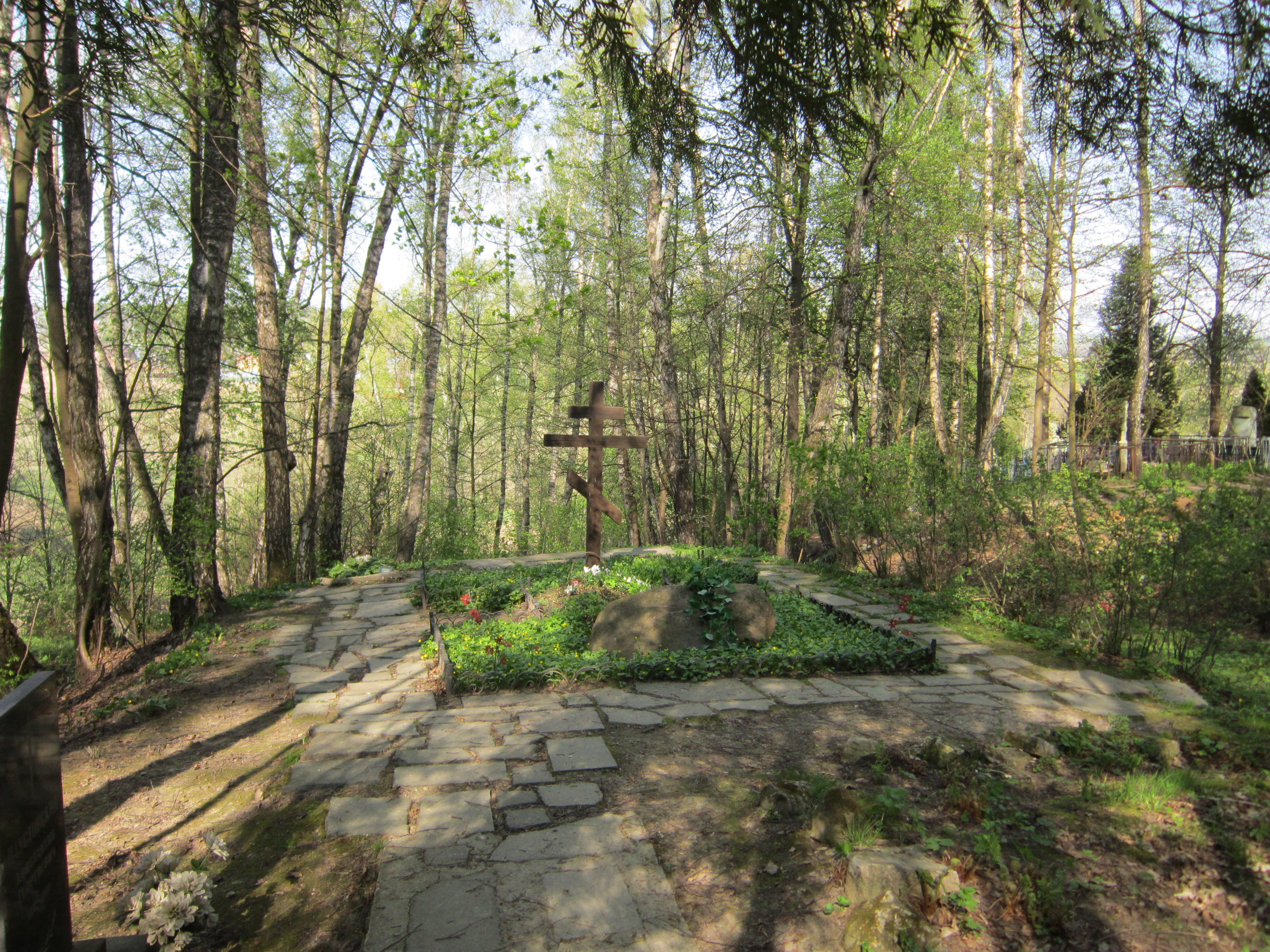 The tombstone of Konstantin Paustovski